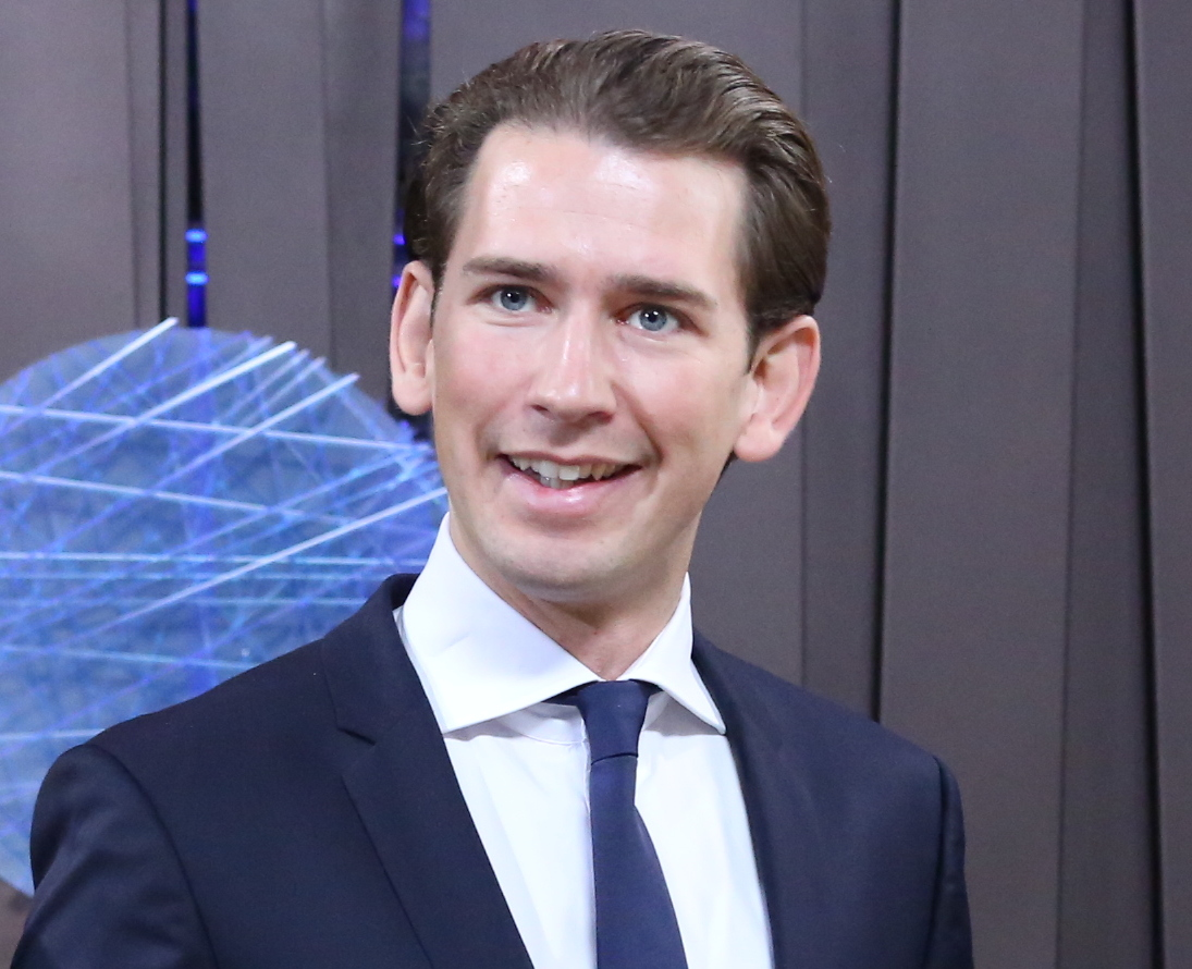 (l-r) Sven Mikser, Minister, Ministry of Foreign Affairs, Estonia; Sebastian Kurz, Minister, Federal Ministry for Europe, Integration and Foreign Affairs, Austria; Federica Mogherini, High Representative/Vice President, European External Action Service/European Commission; Photo: Annika Haas (EU2017EE)